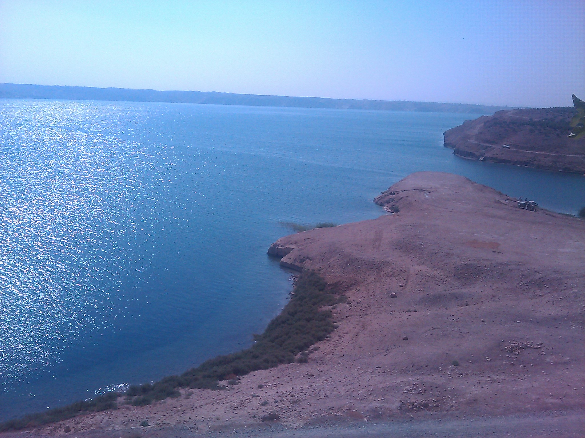 October leak near Qal'at Najm